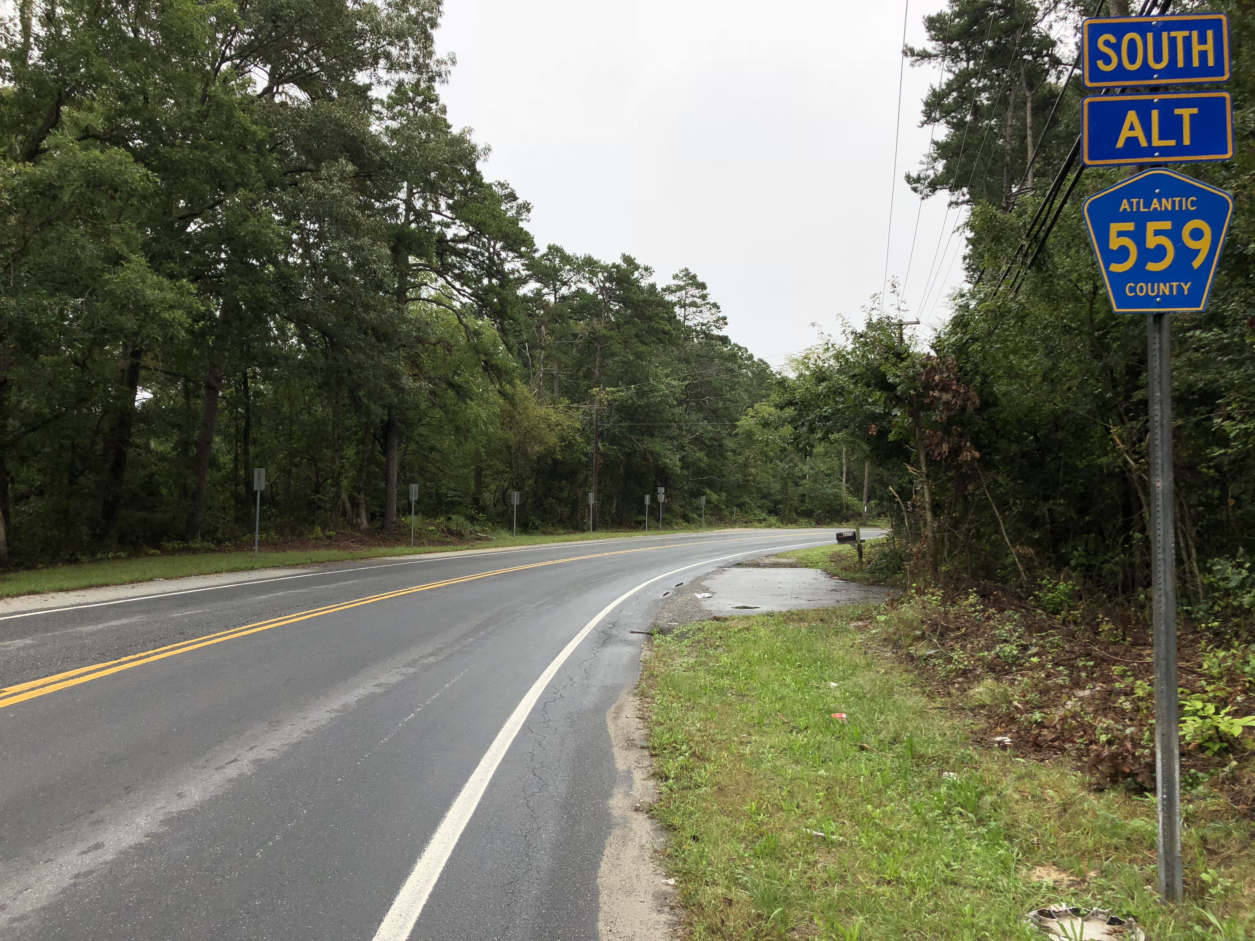 View south along Atlantic County Route 559 Alternate (Ocean Heights Avenue) just south of Atlantic County Route 559 (Somers Point-Mays Landing Road) in Hamilton Township, Atlantic County, New Jersey